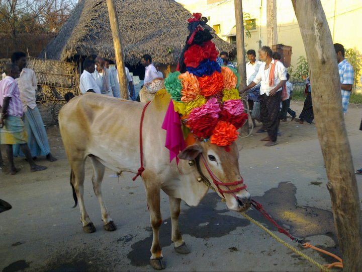 My village Jallikattu - Kadaladi Village [606 908]